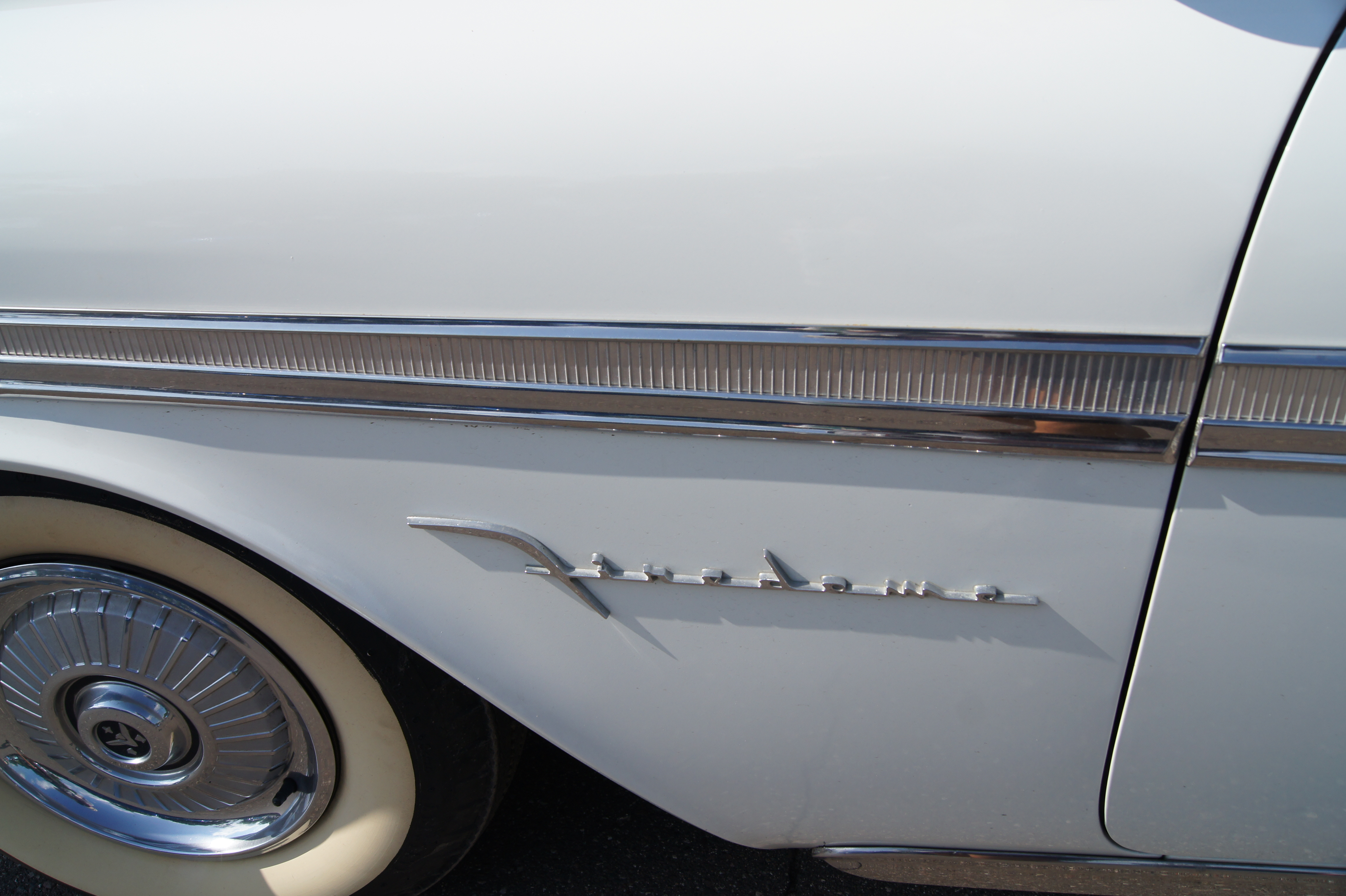 MSRA “BACK TO THE 50′s” 40th ANNIVERSARY June 21-23, 2013 State Fairgrounds St. Paul Minnesota More Car Pictures